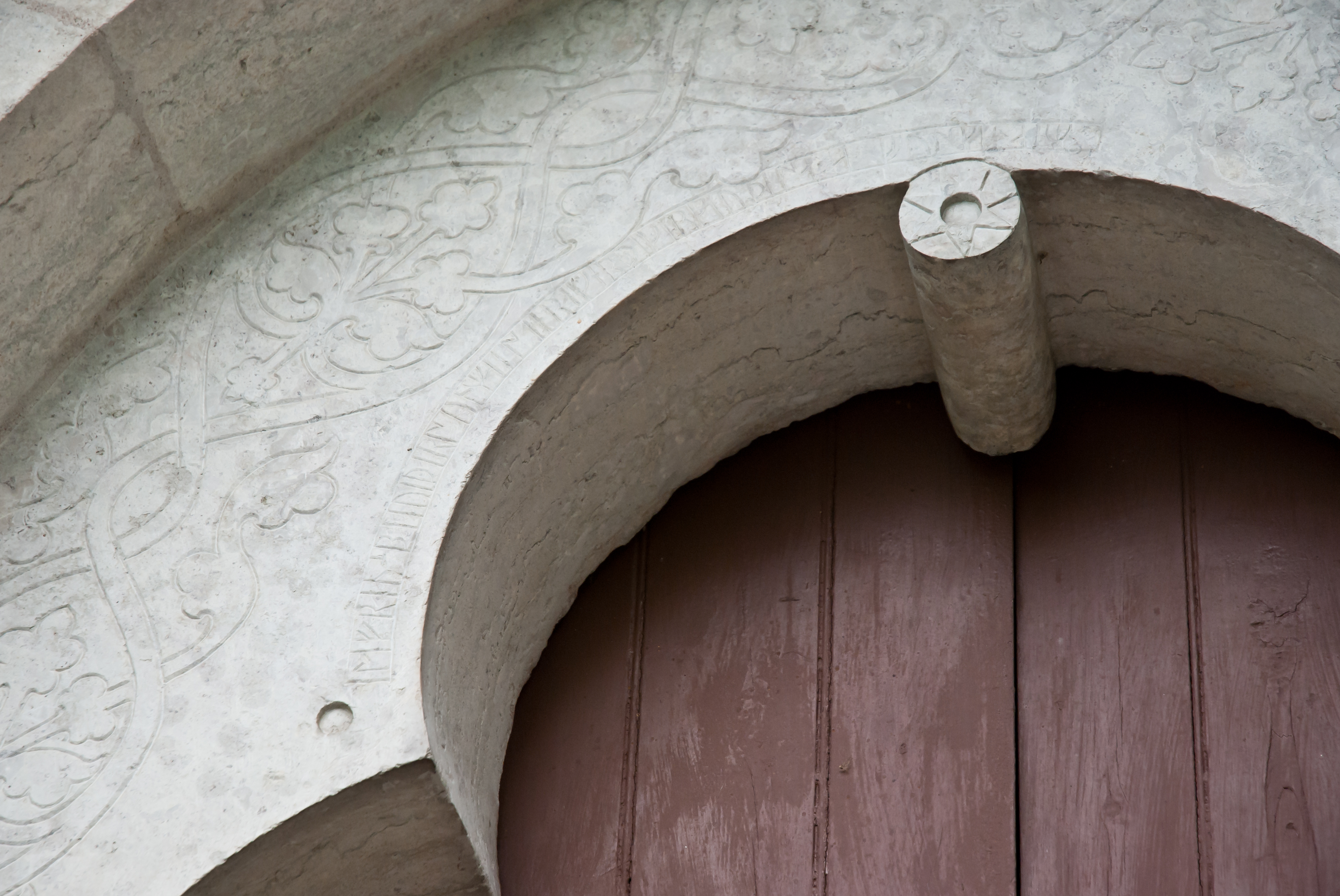 Closeup of door of Hellvi church on Gotland. Here, "Lafran's runes" are clearly visible.